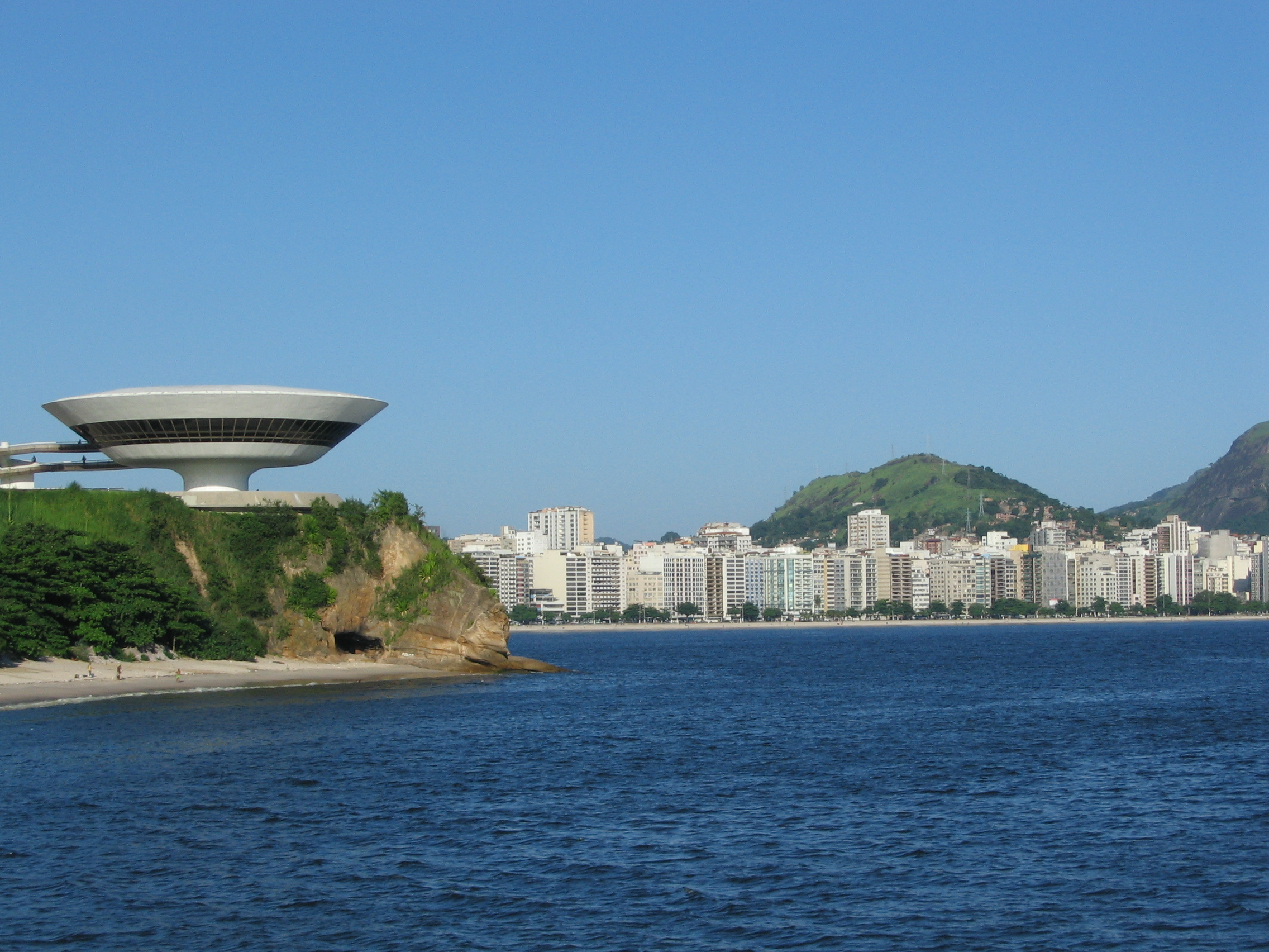 A view from Rio de Janeiro over the bay to Niterói in full sunlight. On the left, the Niterói Contemporary Art Museum (MAC - Museu de Arte Contemporânea de Niterói - " designed by Oscar Niemeyer . Note: this is a picture of Niterói city, not Rio.